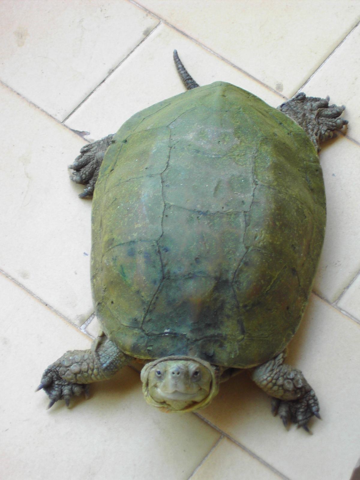 Galápago leproso ibérico "Mauremys caspica". Hembra adulta con el caparazón cubierto de algas. // Adult female of Spanish Turtle "Mauremys caspica", with seaweed-coated shield. * It's in fact a Mauremys leprosa (Mauremys caspica doesn't live in spain). Christophe cagé 13:48, 16 May 2007 (UTC)